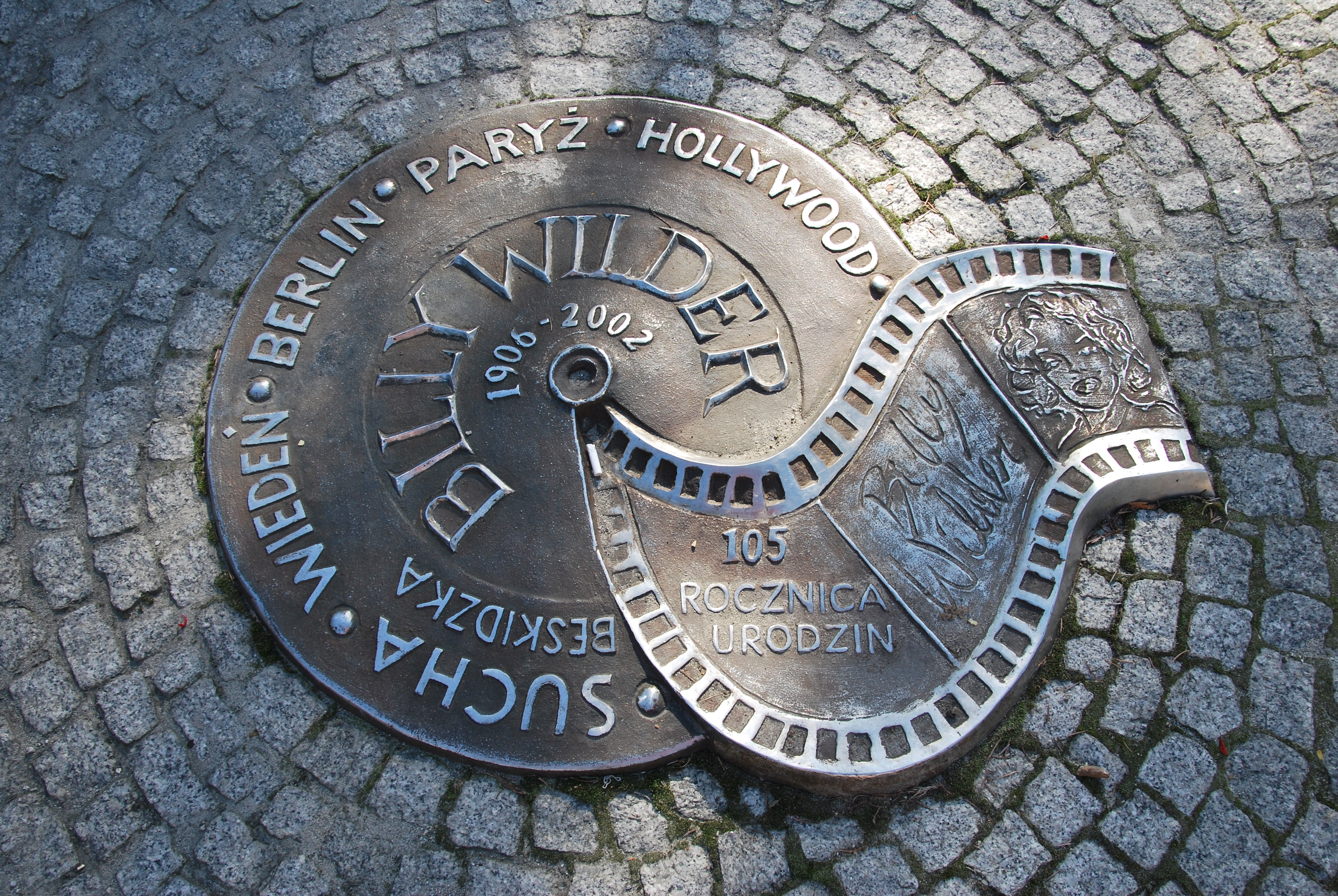 Billy Wilder plaque on the Market Square in Sucha Beskidzka made by sculptor Wiesław Kwak (Poland).